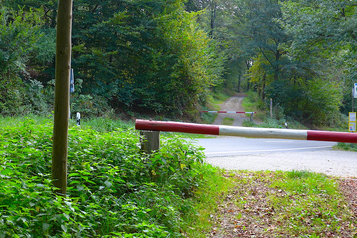 "Blade track" - the tourist marked route around the German city of Solingen (Northern Rhine-Westphalia). Third stage: Around the fortress of Schloss Burg and through the valley of a stream Esch. 8,1 km.